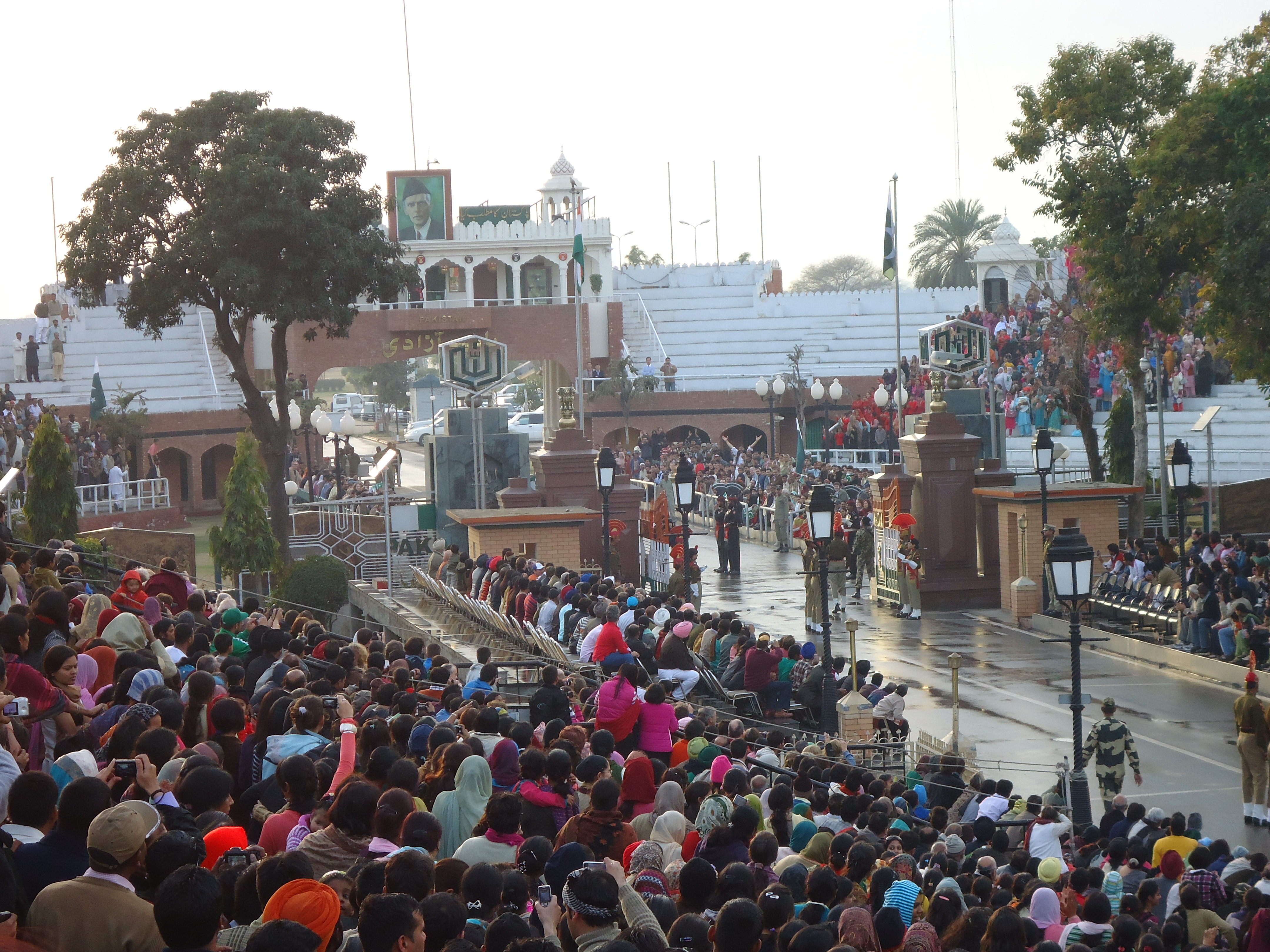 Wagha border